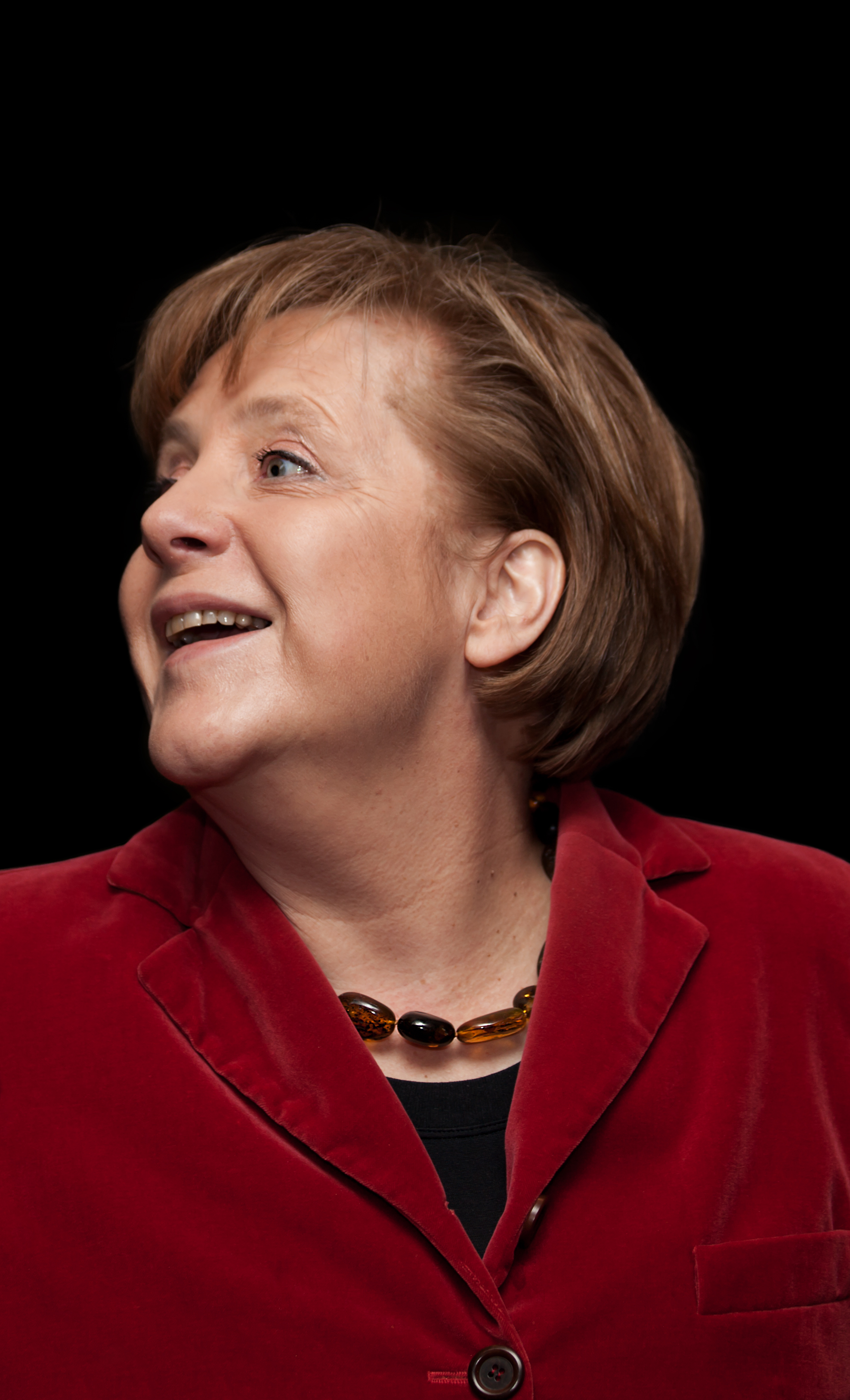 Portrait of Angela Merkel (CDU), Chancellor of Germany. Picture taken in february 17, 2011 in the Congress Center, Hamburg.